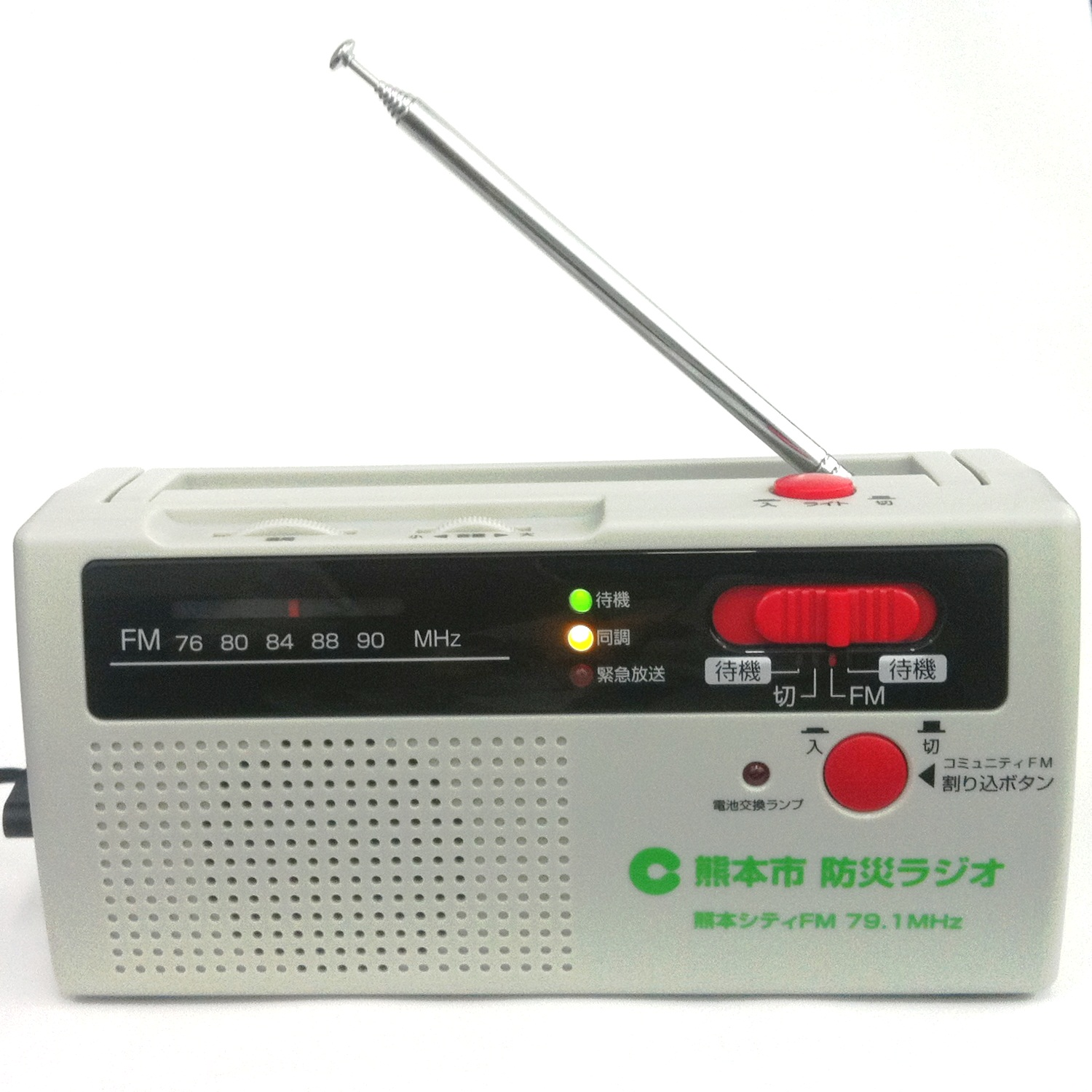 FM radio receiver for disaster management in Kumamoto City, Japan